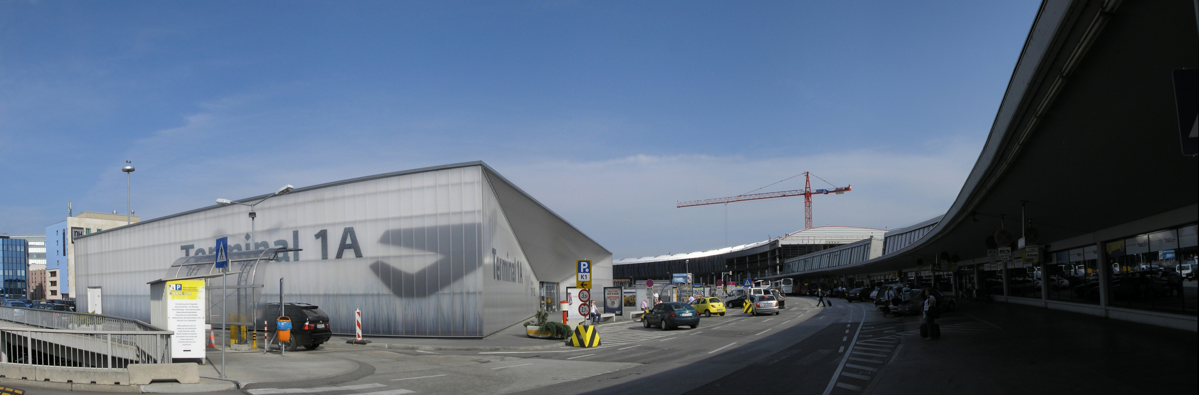 Outside view of the departure terminals of Vienna International Airport at Schwechat.